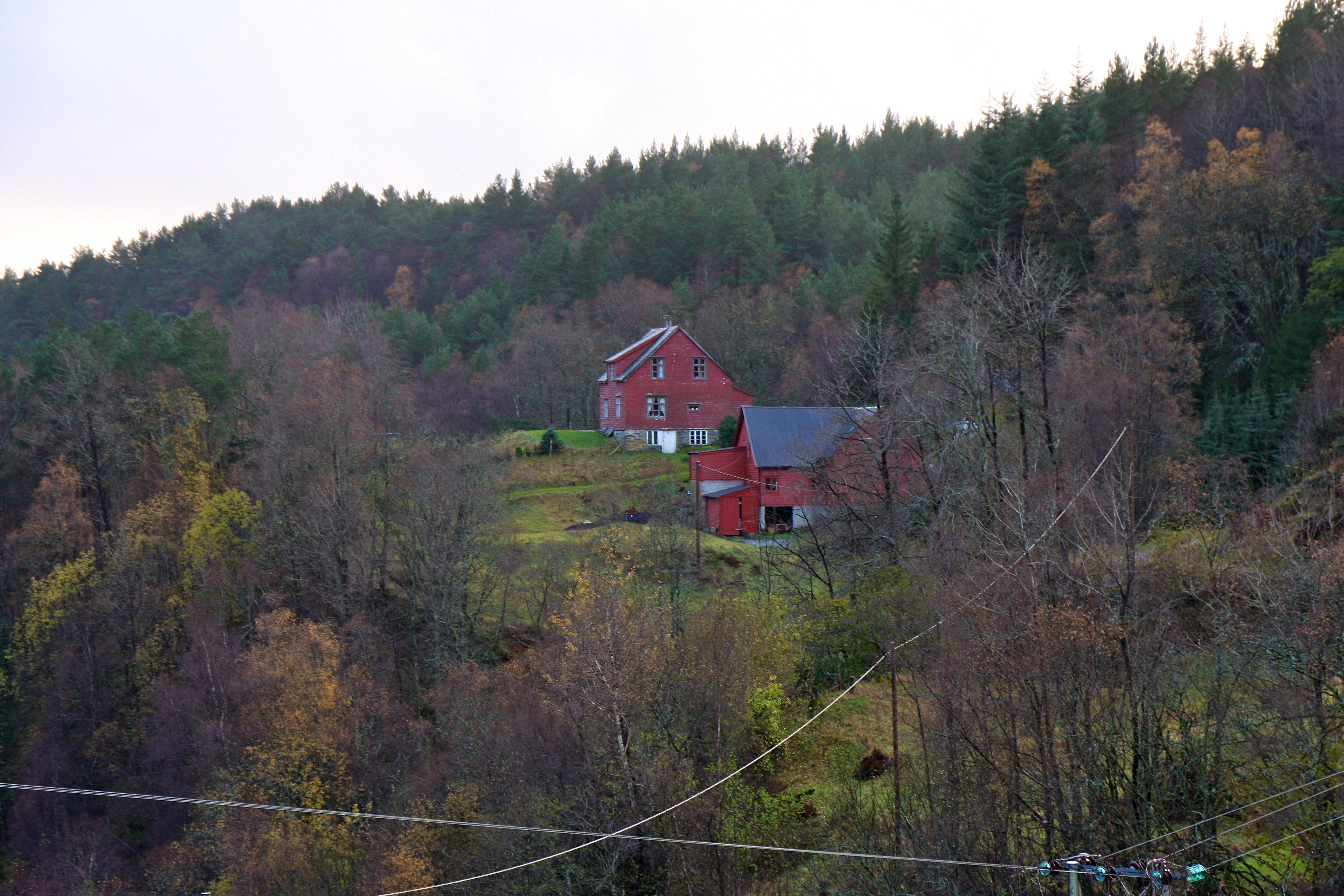 Vatne (Gulen) in Gulen municipality, Norway.